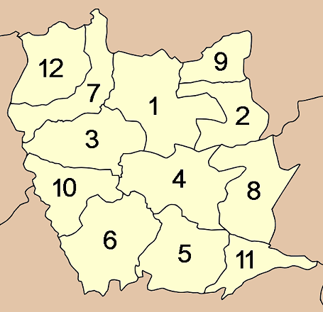 Map of the province Phichit with the districts (Amphoe, อำเภอ) numbered. Mueang Phichit (อำเภอเมืองพิจิตร) Wang Sai Phun (อำเภอวังทรายพูน) Pho Prathap Chang (อำเภอโพธิ์ประทับช้าง) Taphan Hin (อำเภอตะพานหิน) Bang Mun Nak (อำเภอบางมูลนาก) Pho Thale (อำเภอโพทะเล) Sam Ngam (อำเภอสามง่าม) Tap Khlo (อำเภอทับคล้อ) Sak Lek (กิ่งอำเภอสากเหล็ก) Bueng Na Rang (กิ่งอำเภอบึงนาราง) Dong Charoen (กิ่งอำเภอดงเจริญ) Wachirabarami (อำเภอวชิรบารมี)